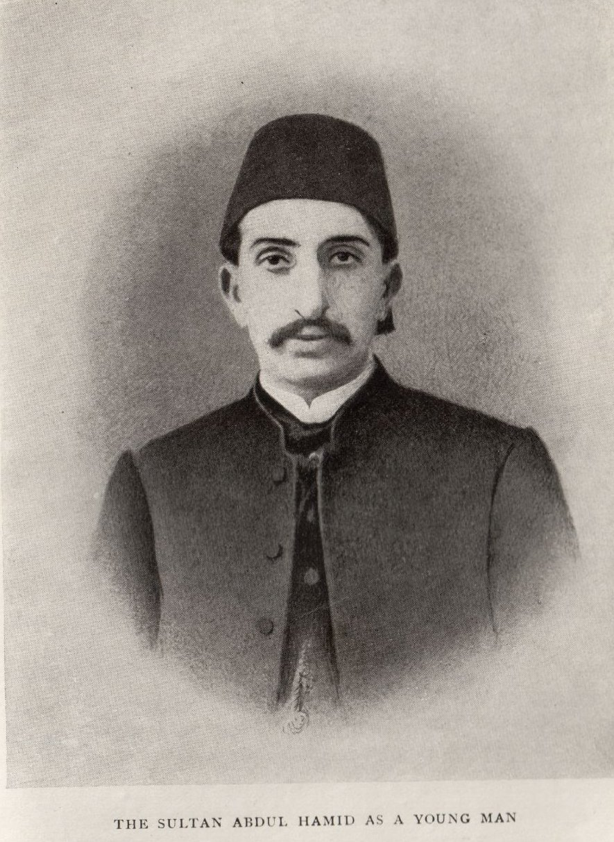 Ottoman Sultan Abdul Hamid when a young man